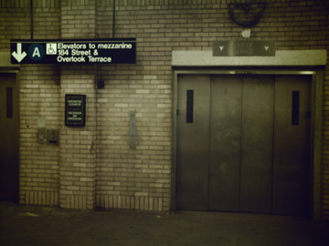 Elevators going down to 181st Street staton from street level at Ft. Washington Ave and 184th Street